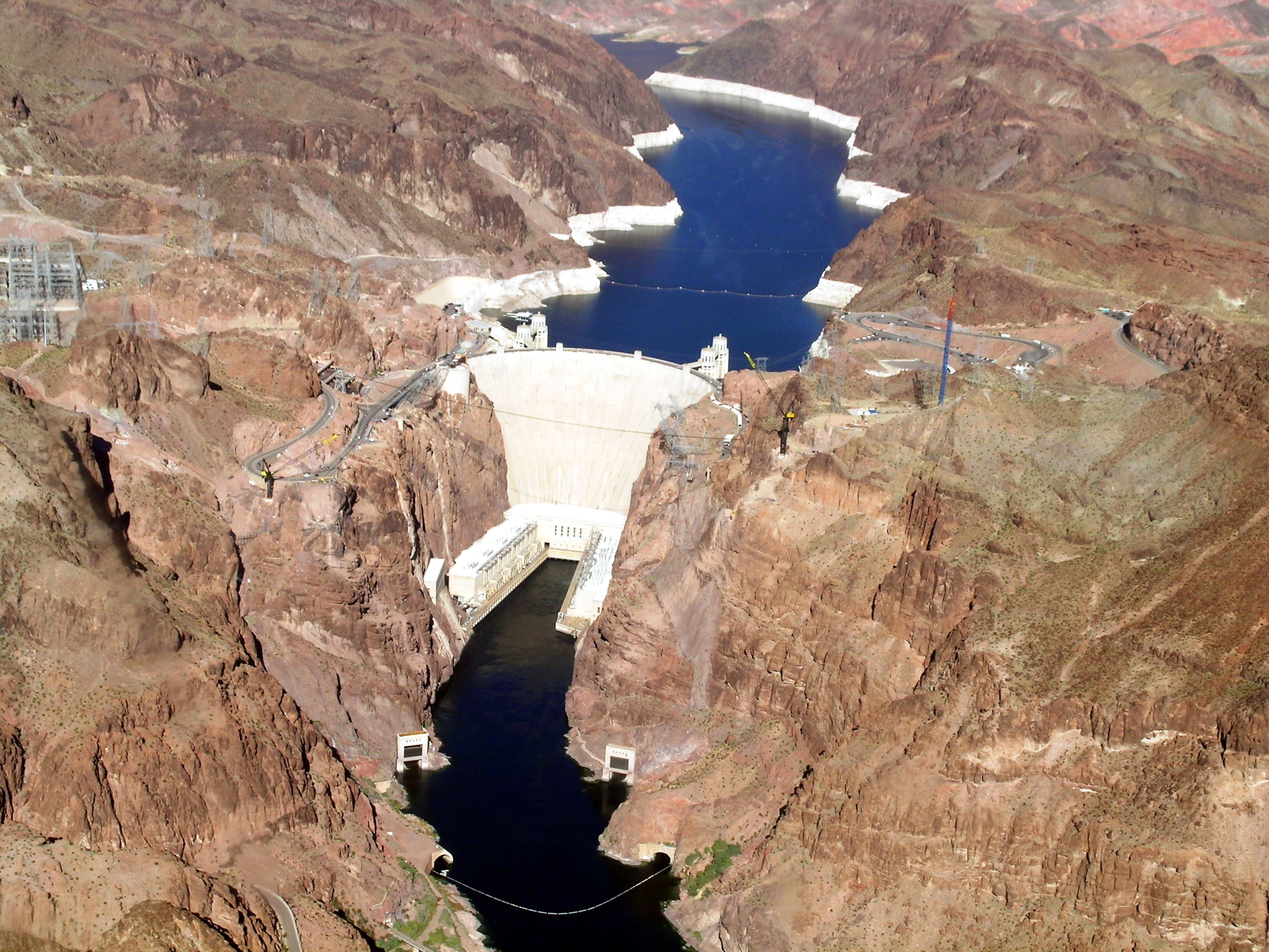 Hoover Dam - helicopter view – early construction stage of Hoover Dam Bypass Bridge (Mike O'Callaghan–Pat Tillman Memorial Bridge)